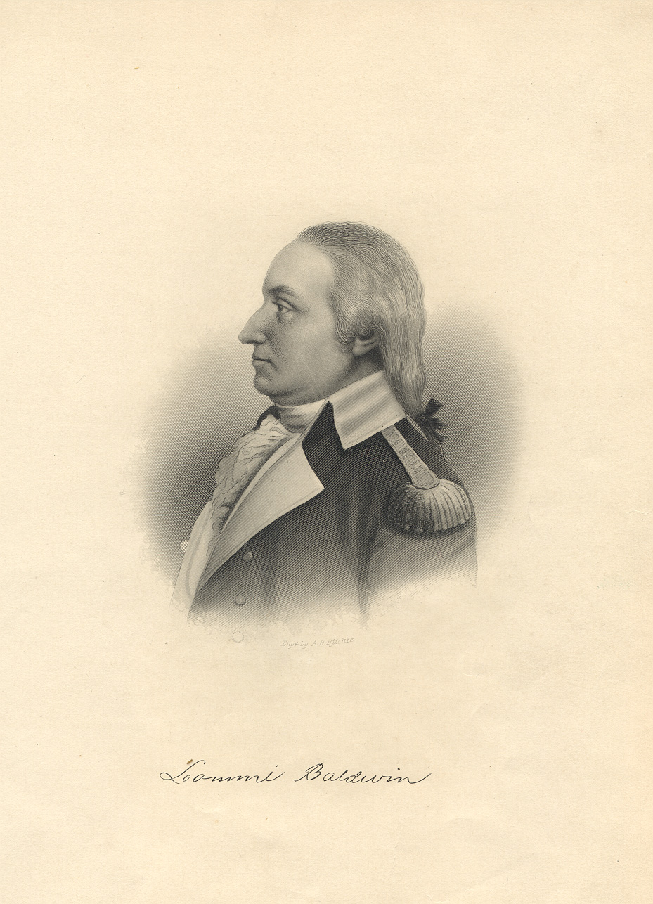 Loammi Baldwin who died in 1807.